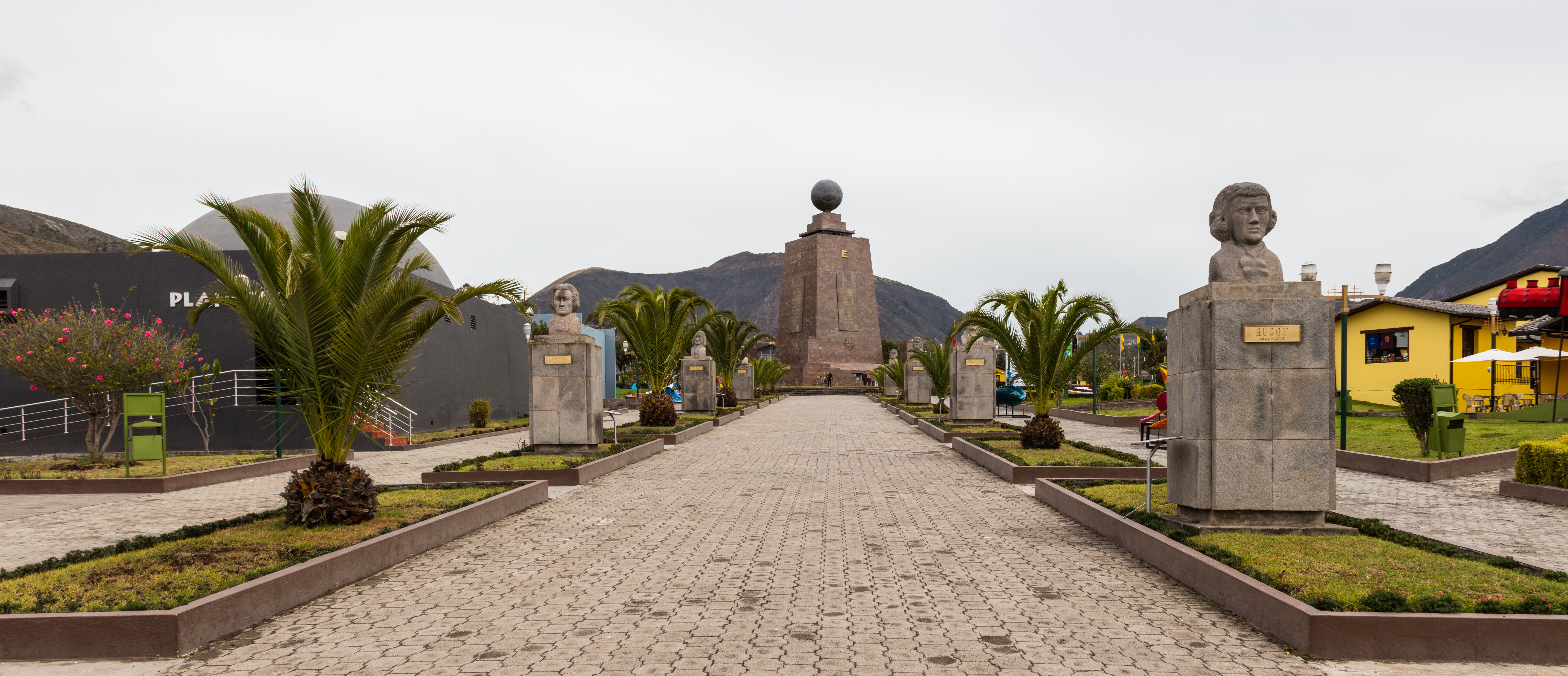 Mitad del Mundo, Quito, Ecuador